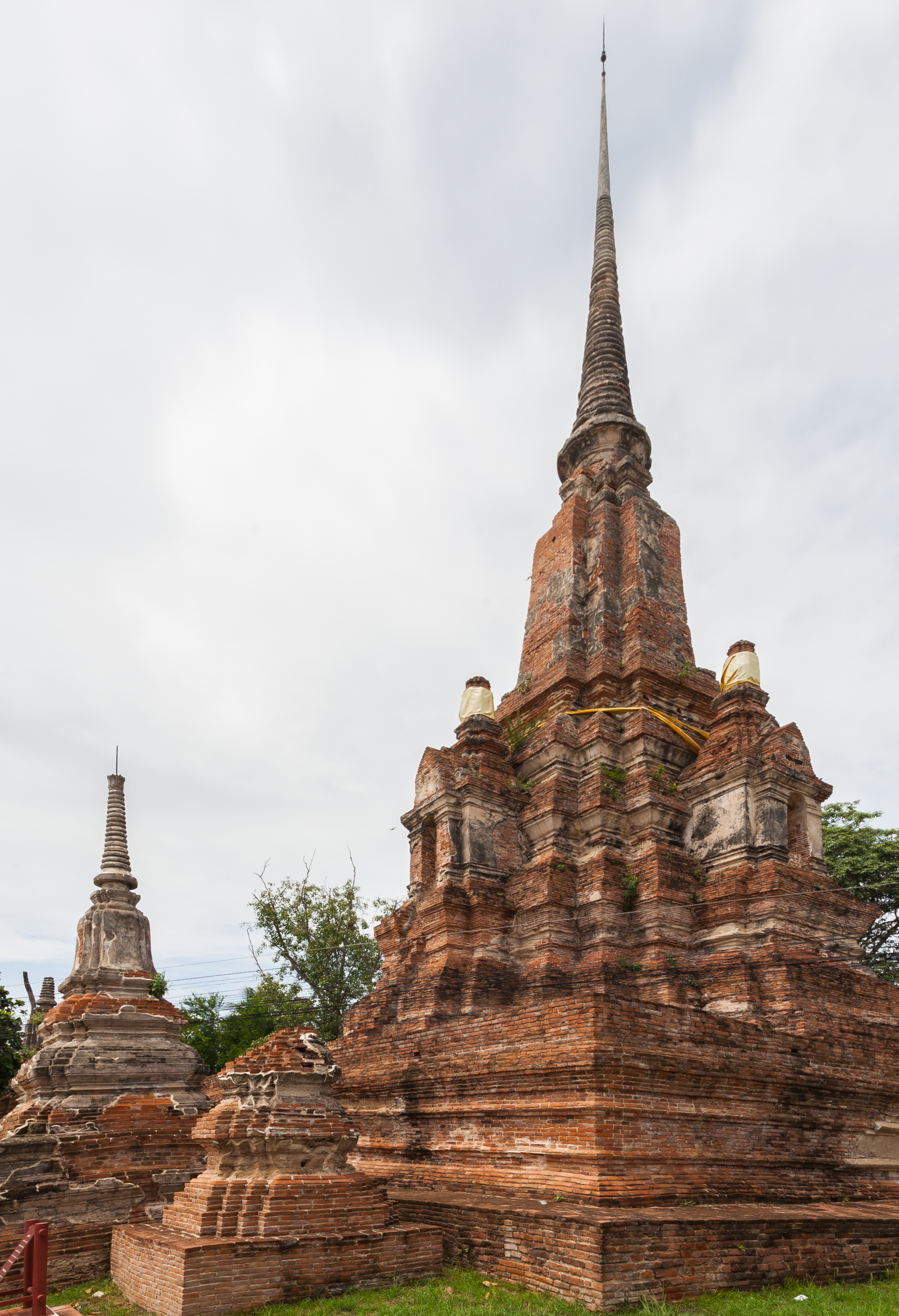 Yanasen temple, Ayutthaya, Thailand